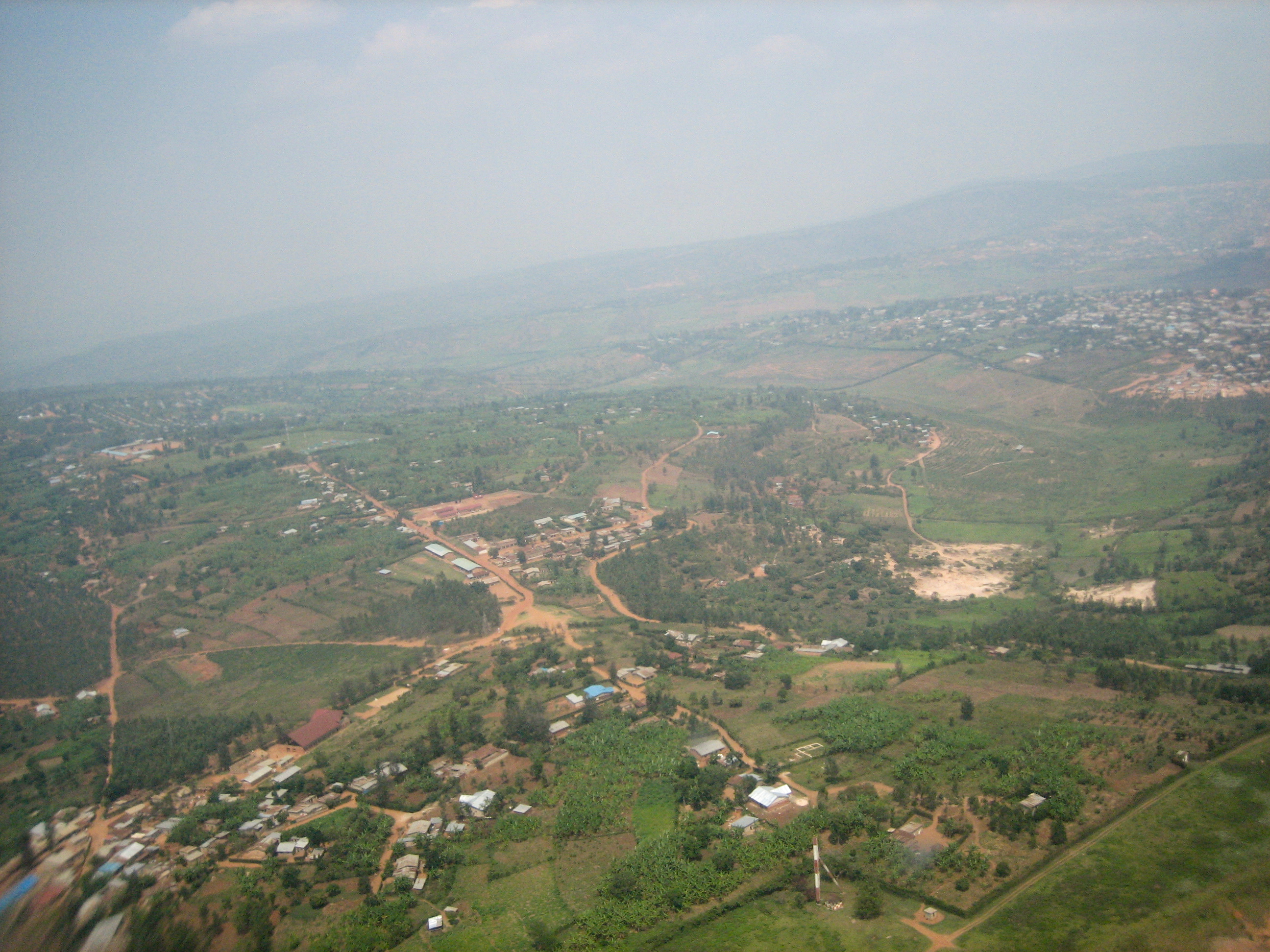 Kigali from above.